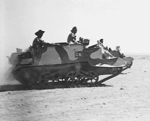 Bren carriers from the Australian 2/43rd Infantry Battalion on manoeuvres at Homs, Syria, June 1942